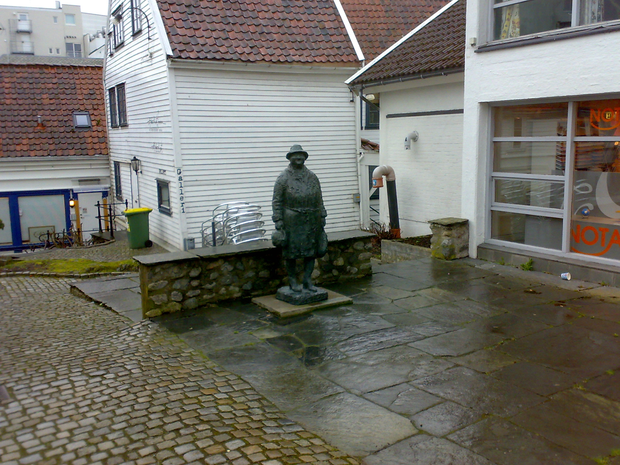 A small piazza in the old town of Stavanger: Lille Sølvbergtorget. The sculpture is "Go'dagen", called "Kånå" by the locals. Artist: Tone Thiis Schjetne. The sculpture was moved here from the central marketplace in 2005.